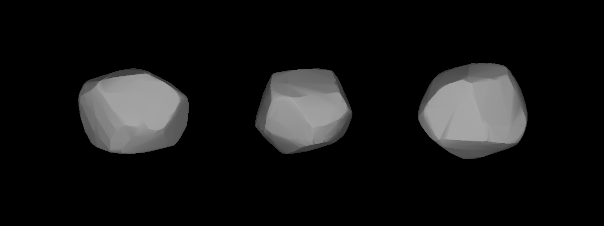 A three-dimensional model of 34 Circe that was computed using light curve inversion techniques.